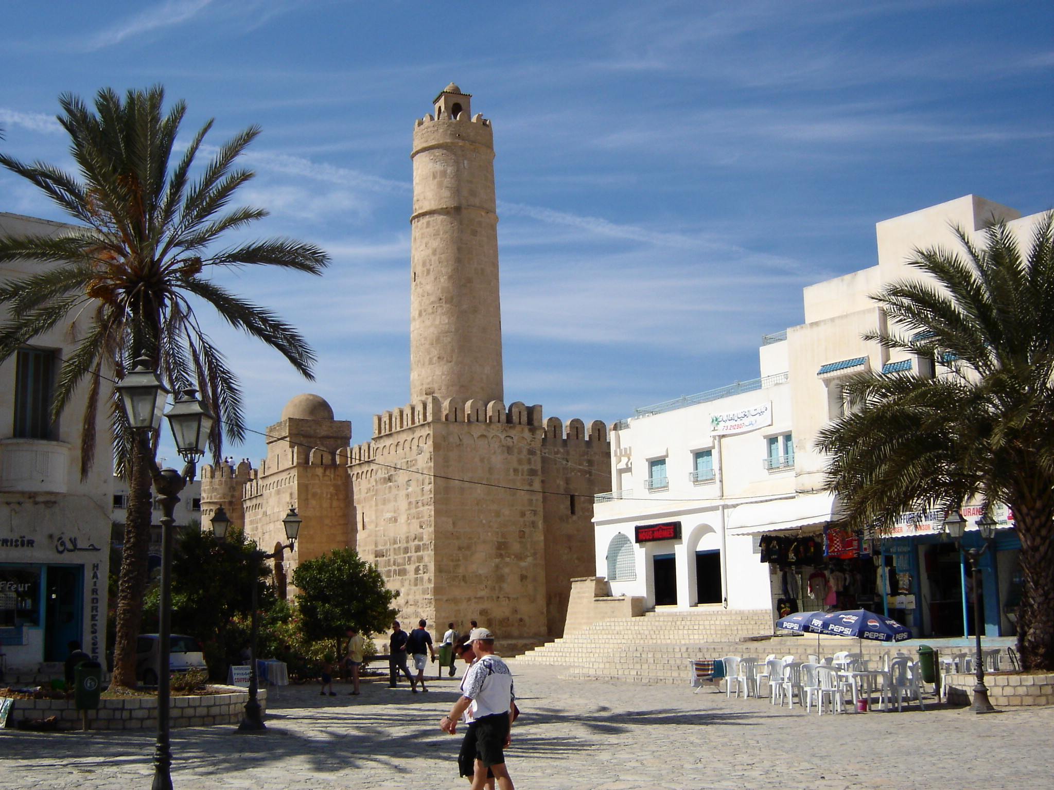 The Ribat of Sousse, Tunisia Source: Self-made (October 2004) Author: BishkekRocks 13:08, 26 December 2005 (UTC)